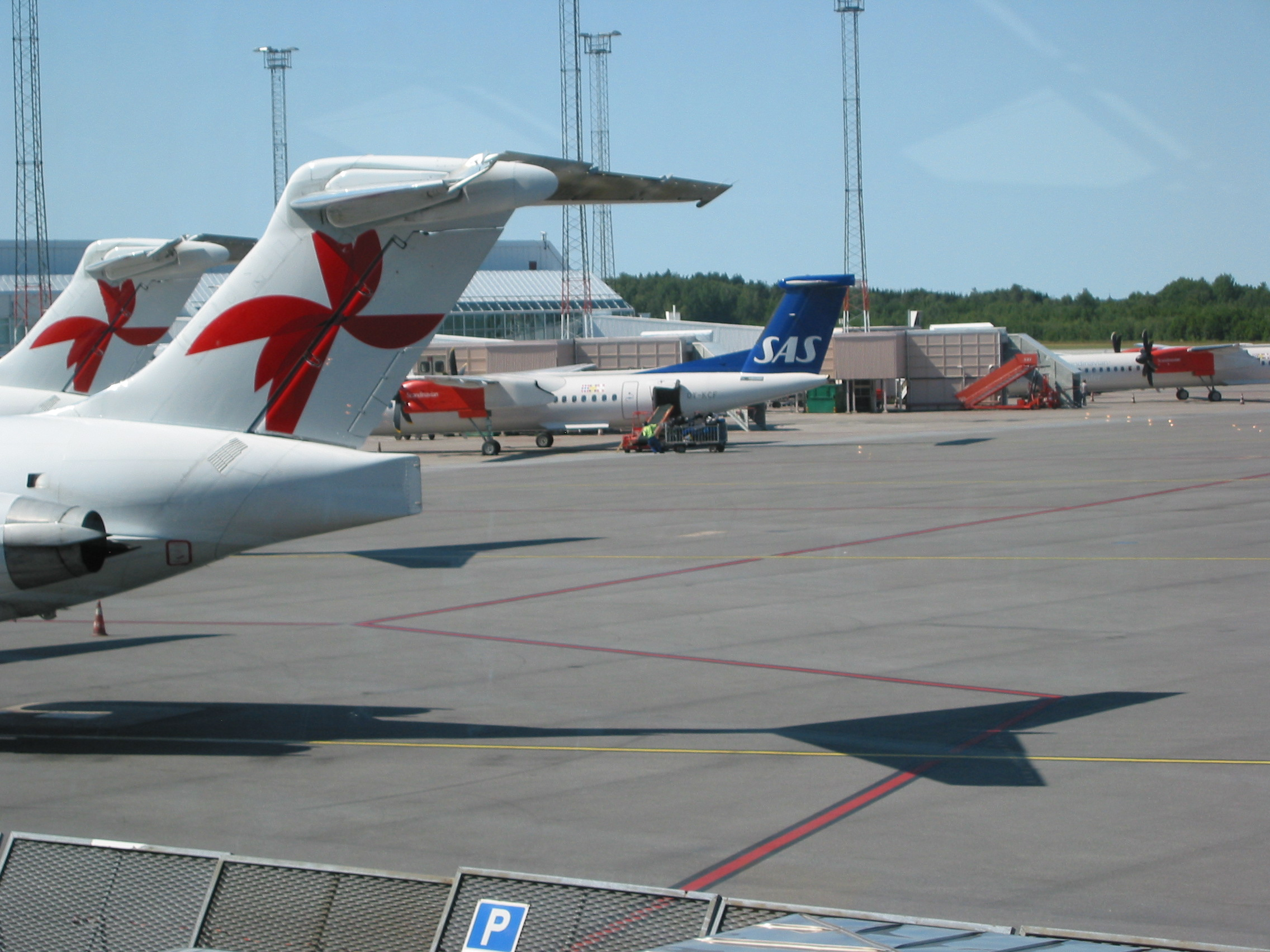 Fly Nordic Md-80's at arlanda with a SAS de Havilland Canada DHC8-Q400 in the background. Picture taken from Sky Cita at Arlanda and shows the Terminal (4) (Domncestic) area of Apron BC.